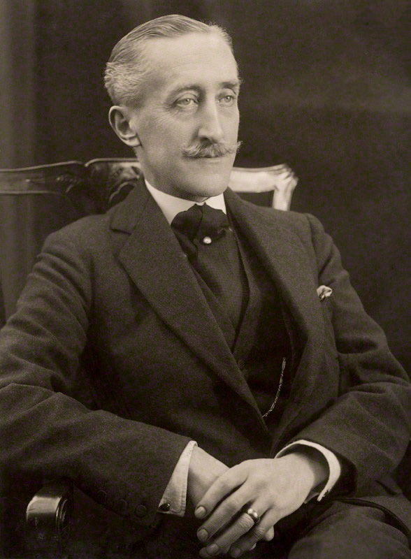 Photography of Freeman Freeman-Thomas, 1st Marquess of Willingdon